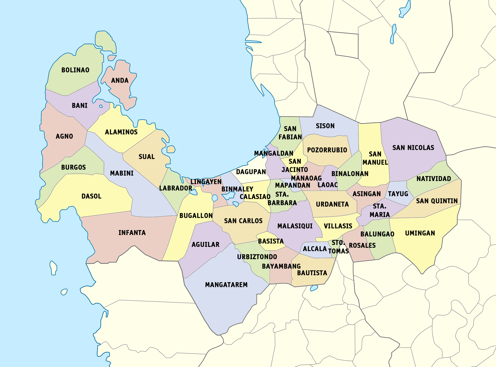 Political map of Pangasinan, Philippines